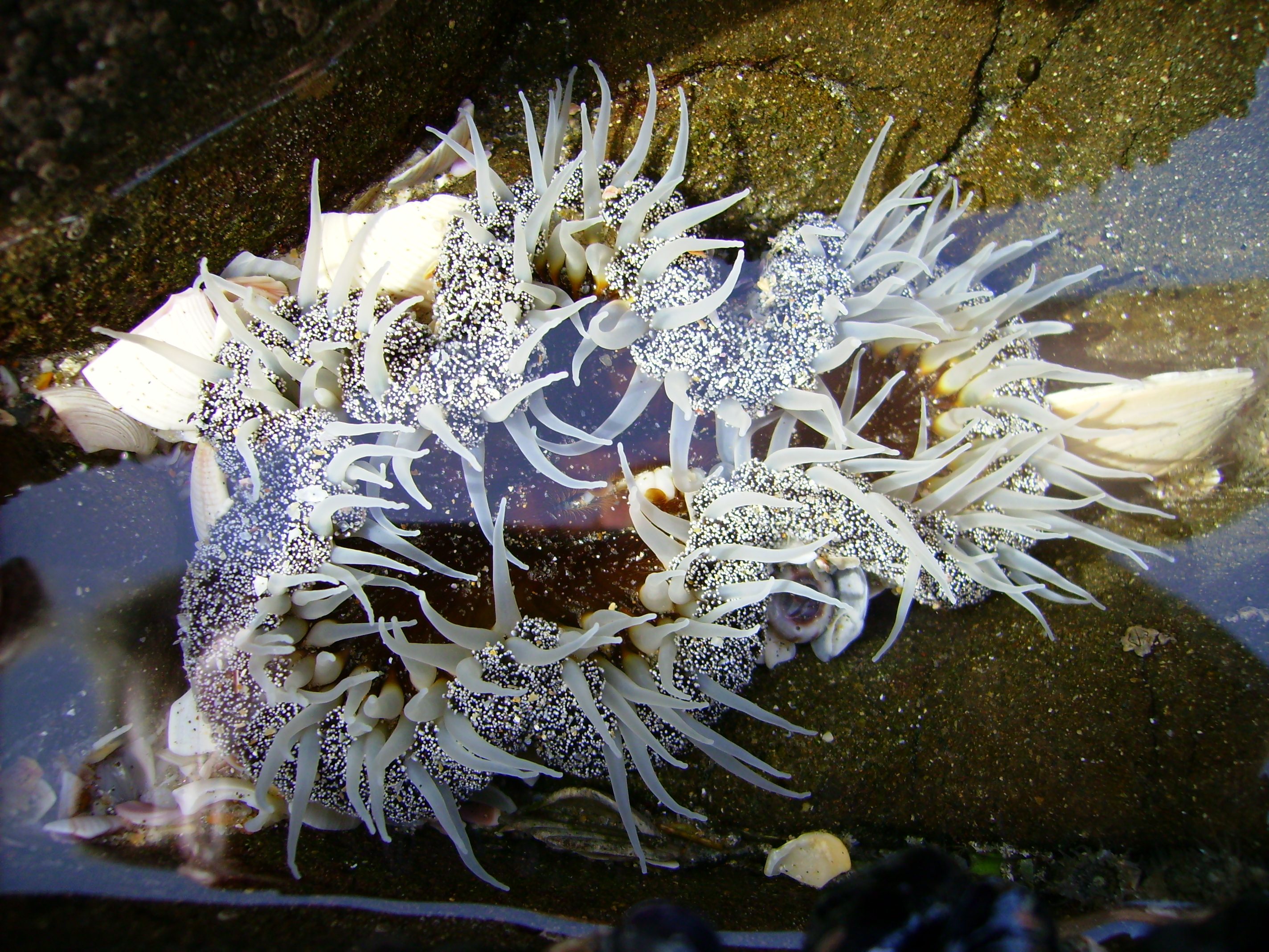 Isocradactis magna from Pakiri Beach, New Zealand. This work has been released into the public domain by its author, Graham Bould. This applies worldwide.In some countries this may not be legally possible; if so:Graham Bould grants anyone the right to use this work for any purpose, without any conditions, unless such conditions are required by law.